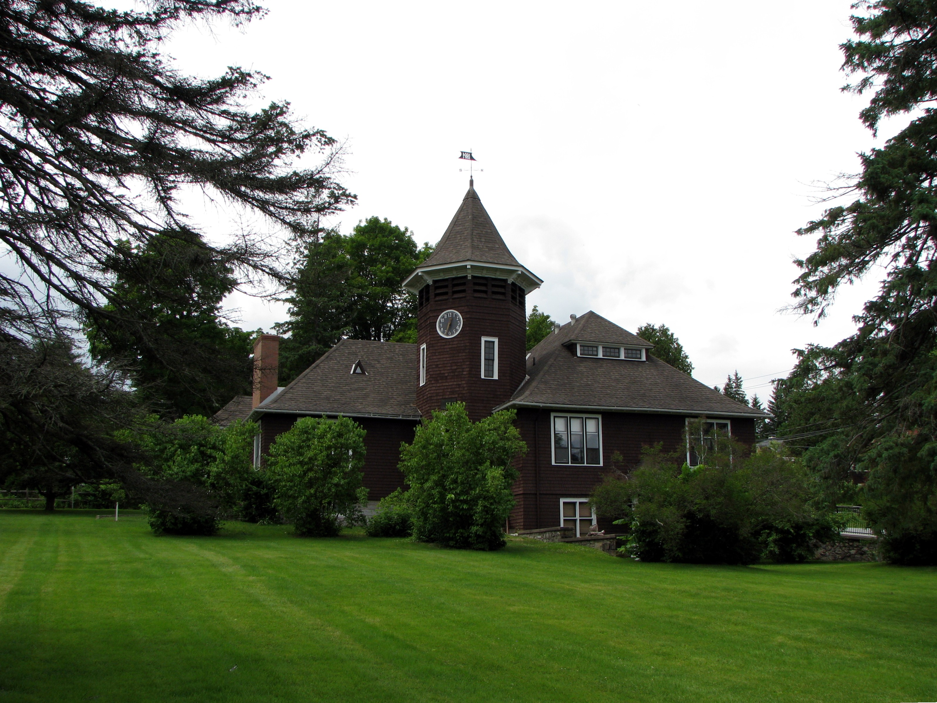 Westport Library, Westport, New York. Built 1887 in Shingle Style.